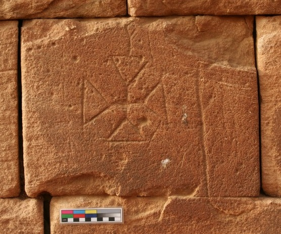 Greek cross inscribed into the walls of a pagan temple in Musawwarat es-Sufra, Sudan. Dates to the Christian-Alodian period (c. 580-1500)